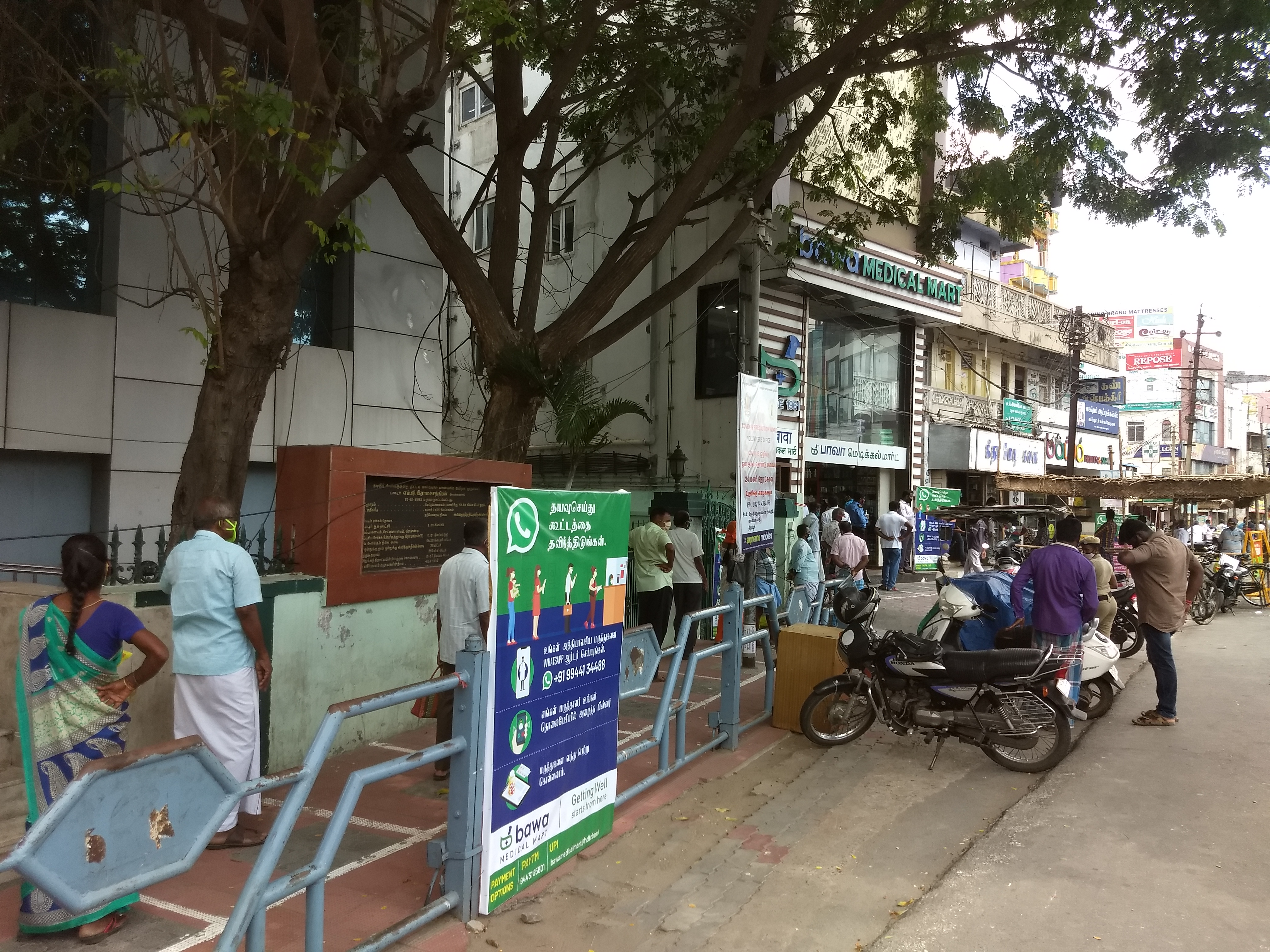 People standing in queue in Tirupur, Tamil Nadu to buy medicines.